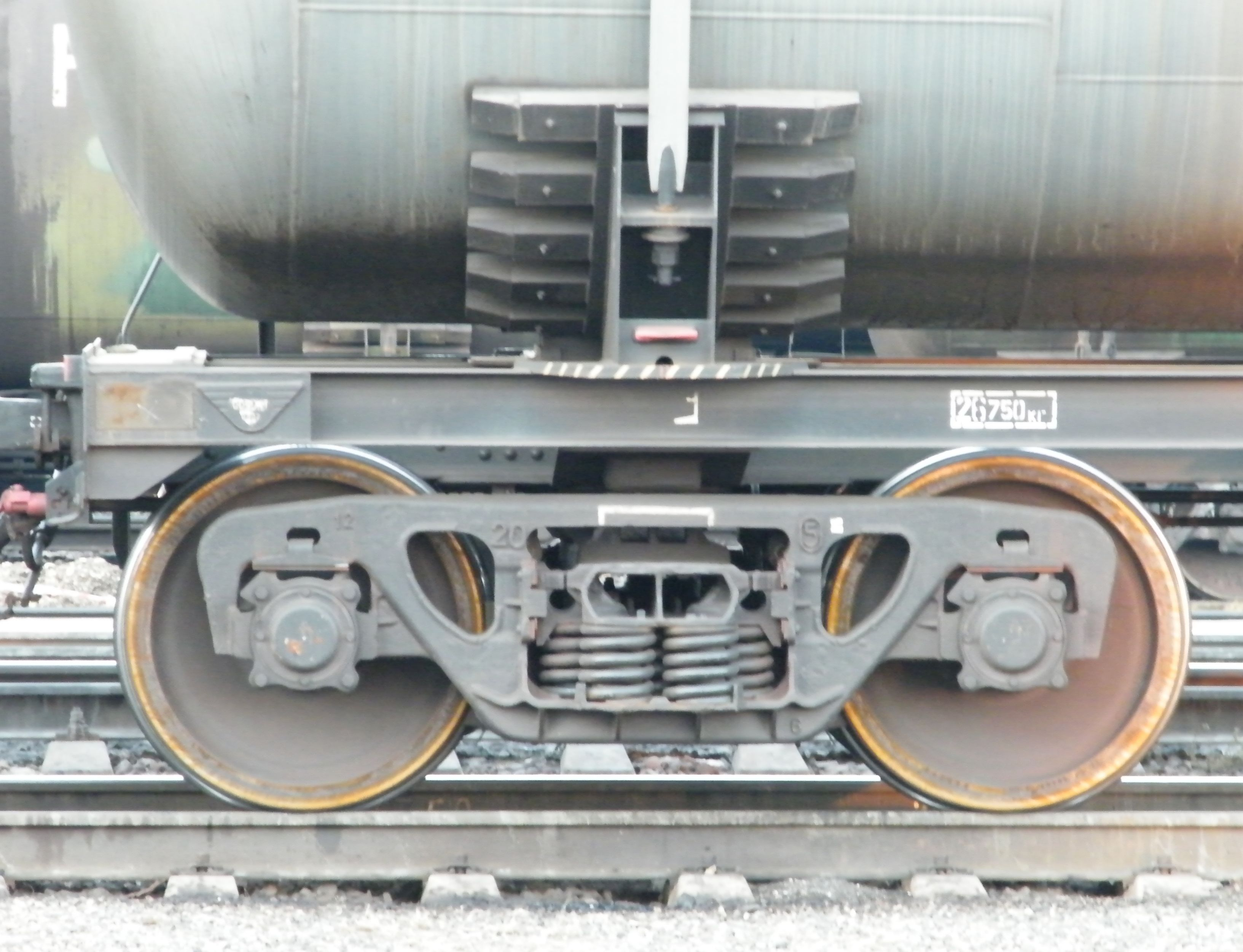 Rolling stock wheels